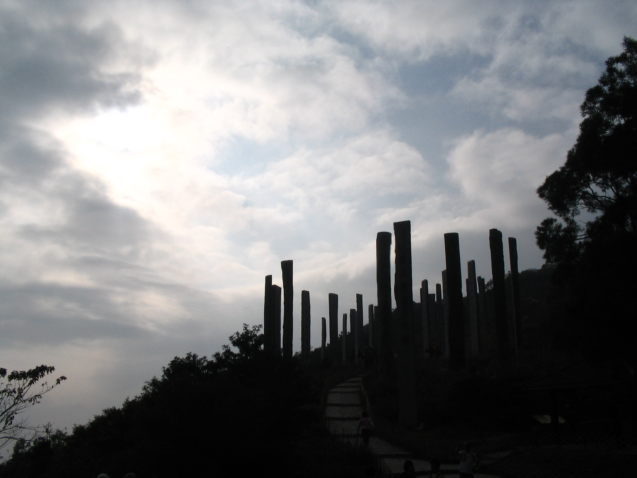 Photo of Wisdom Path